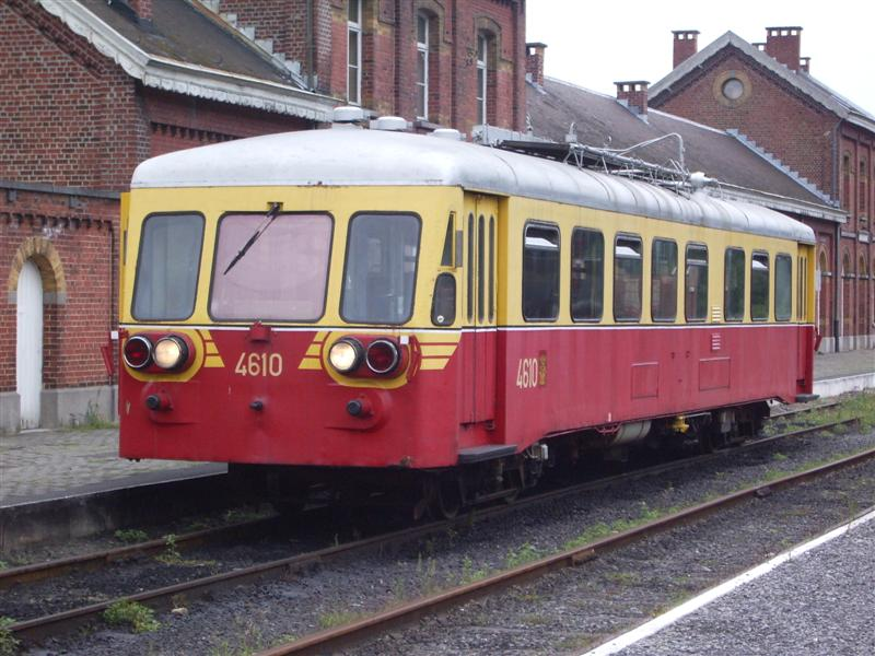 Belgian Railways diesel railcar class 46 in Treignes, terminal station of railay heritage association CFV3V (Chemin de Fer à Vapeur des 3 Vallées)